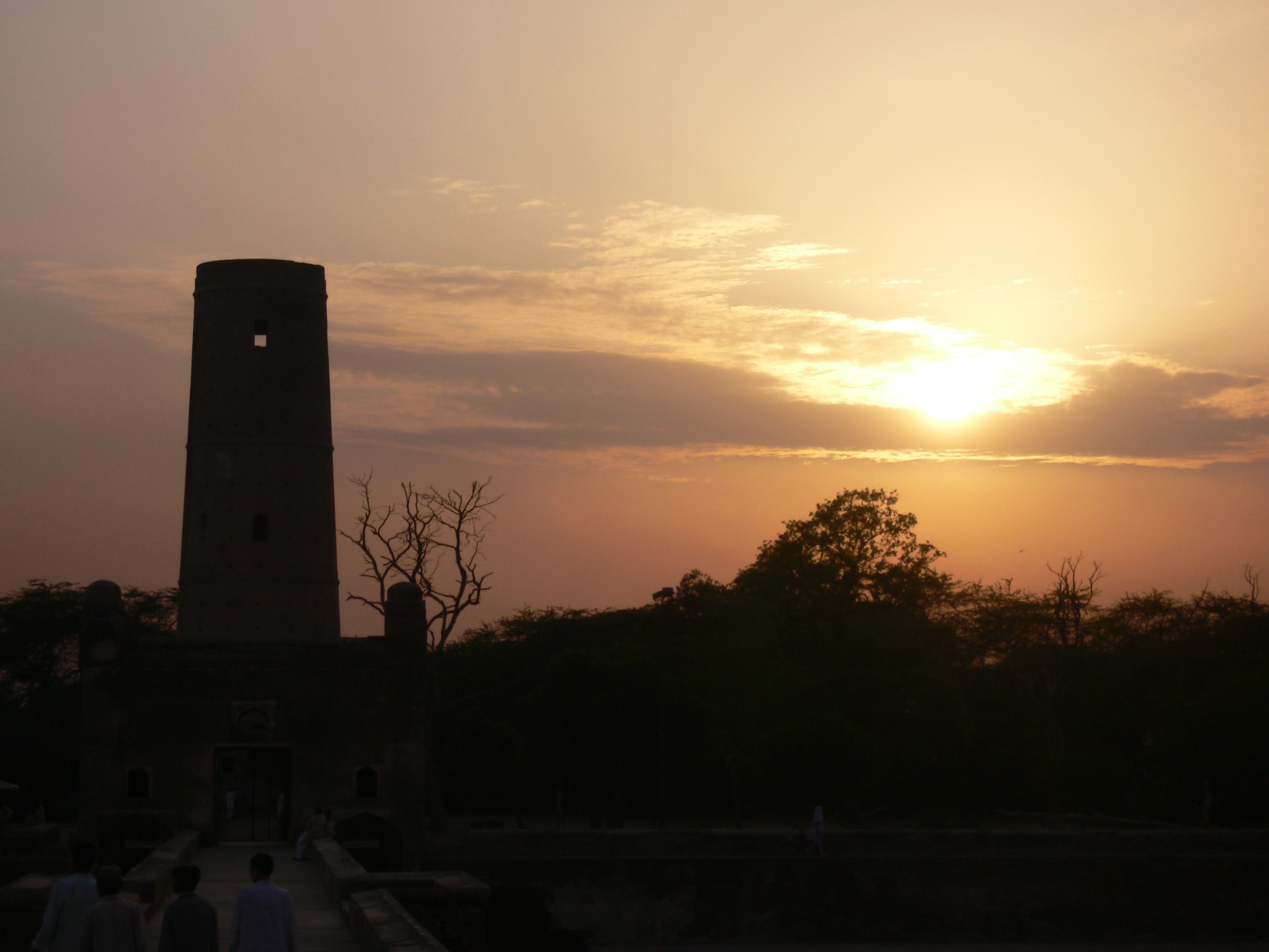 A Wonderful Sunset Scene in Punjab.